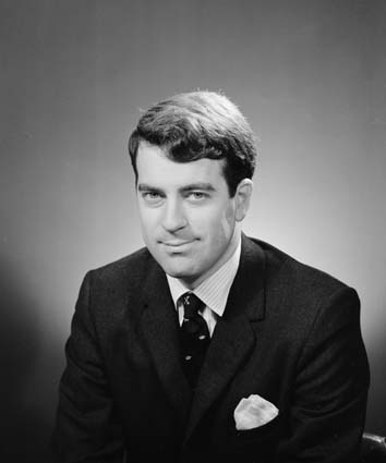 A 1964 black and white portrait of David Connolly, Private Secretary to Senator Alister McMullin and future MHR for Bradfield